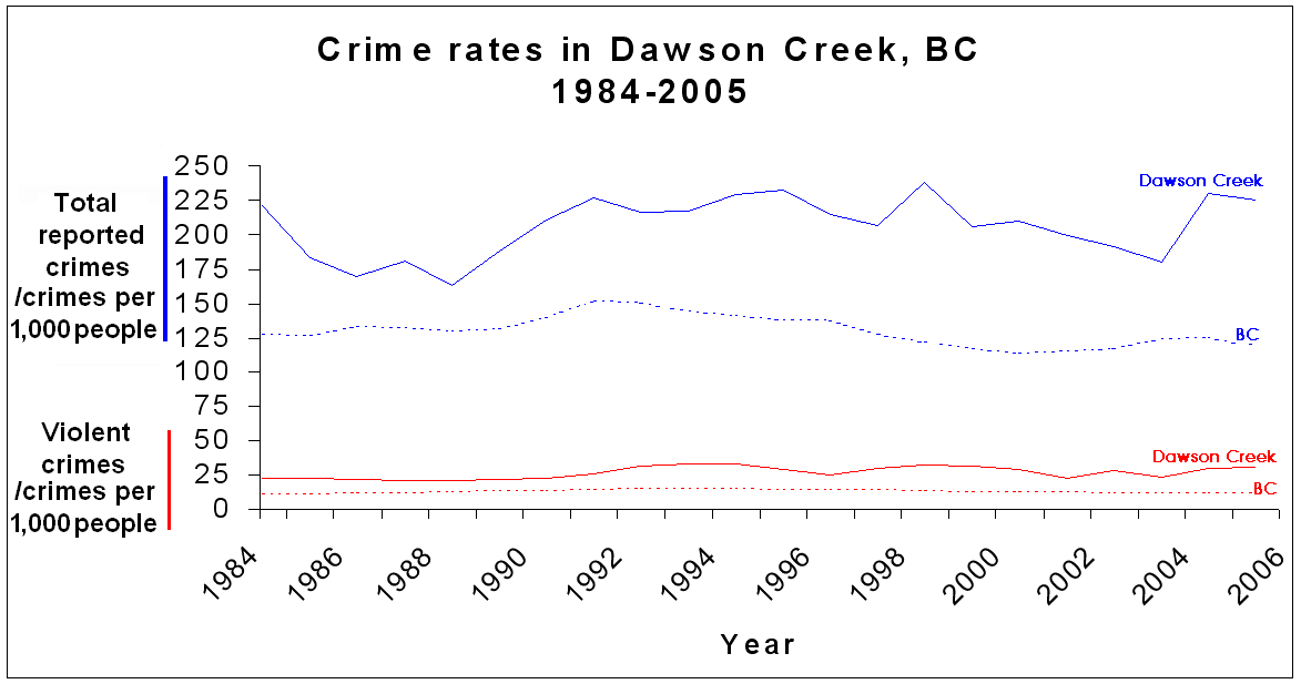 Trend in crime